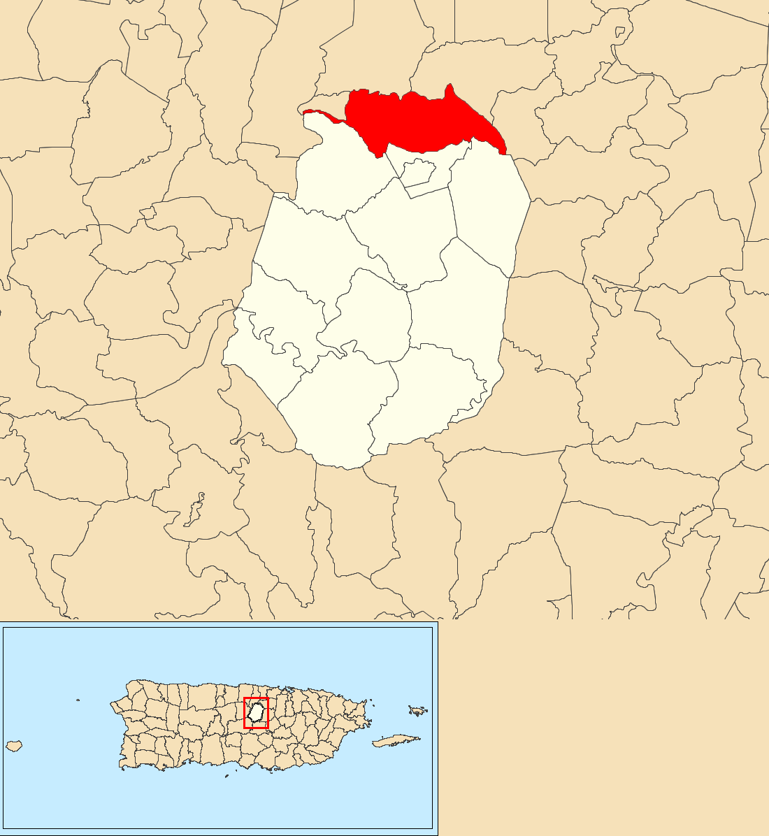 Abras, Corozal, Puerto Rico locator map